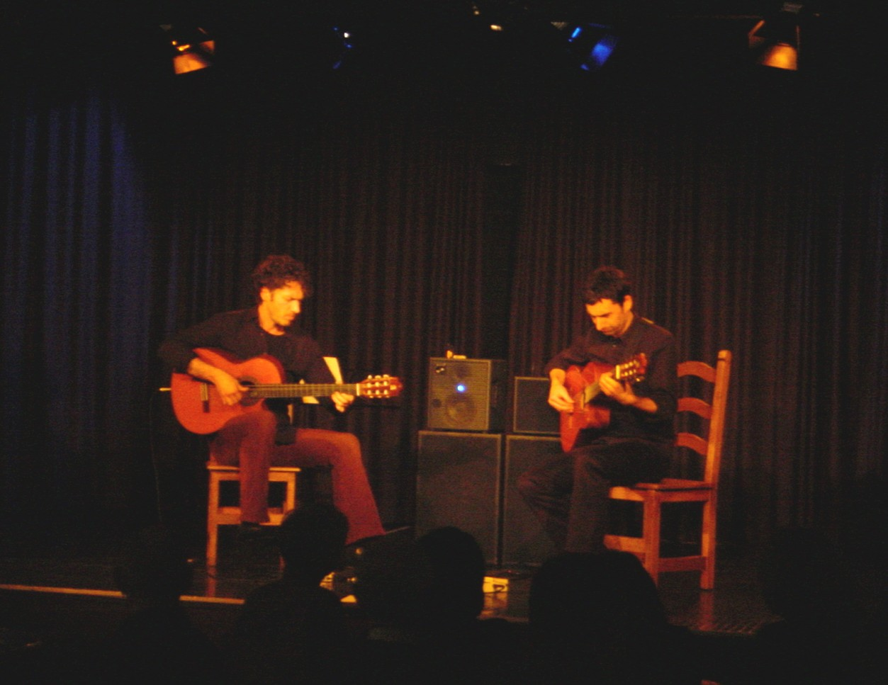 Reentko Dirks and Daniel Wirtz from Dresden, Germany